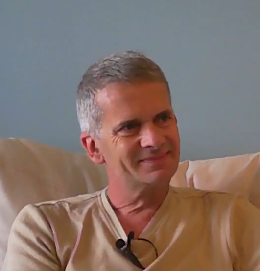 John Clarke being interviewed.